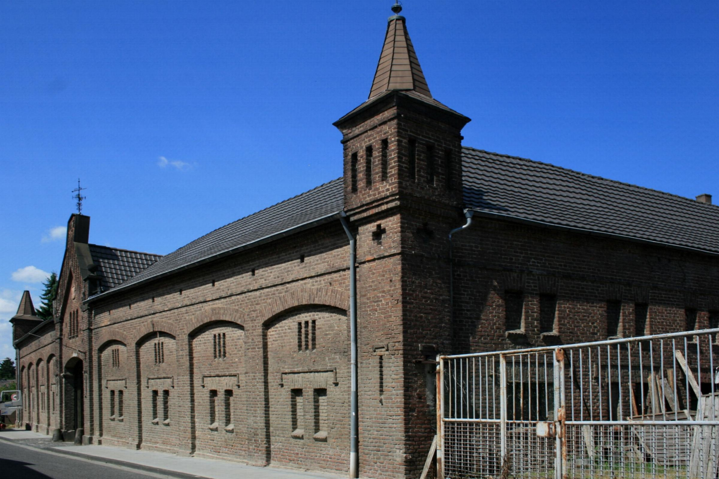 Cultural heritage monument No. K 056 in Mönchengladbach